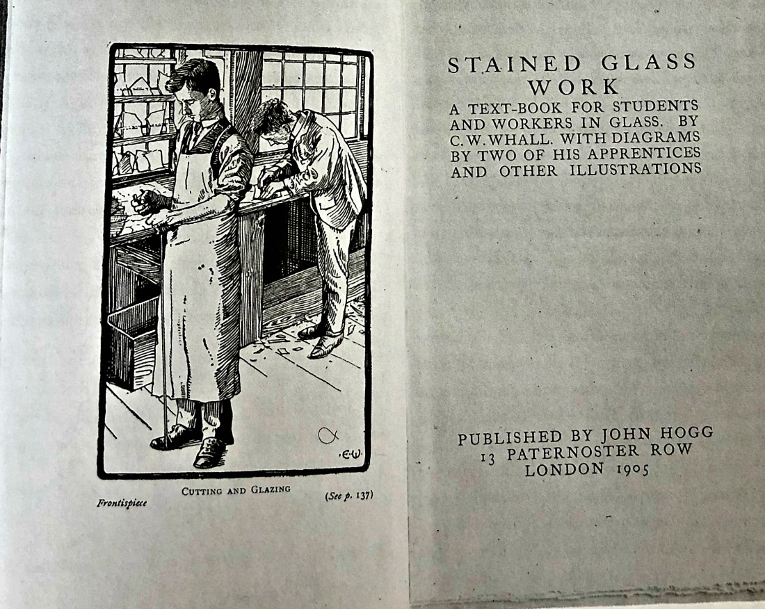 Stained glass work manual by Christopher Whall, frontispiece by Edward Woore and title page